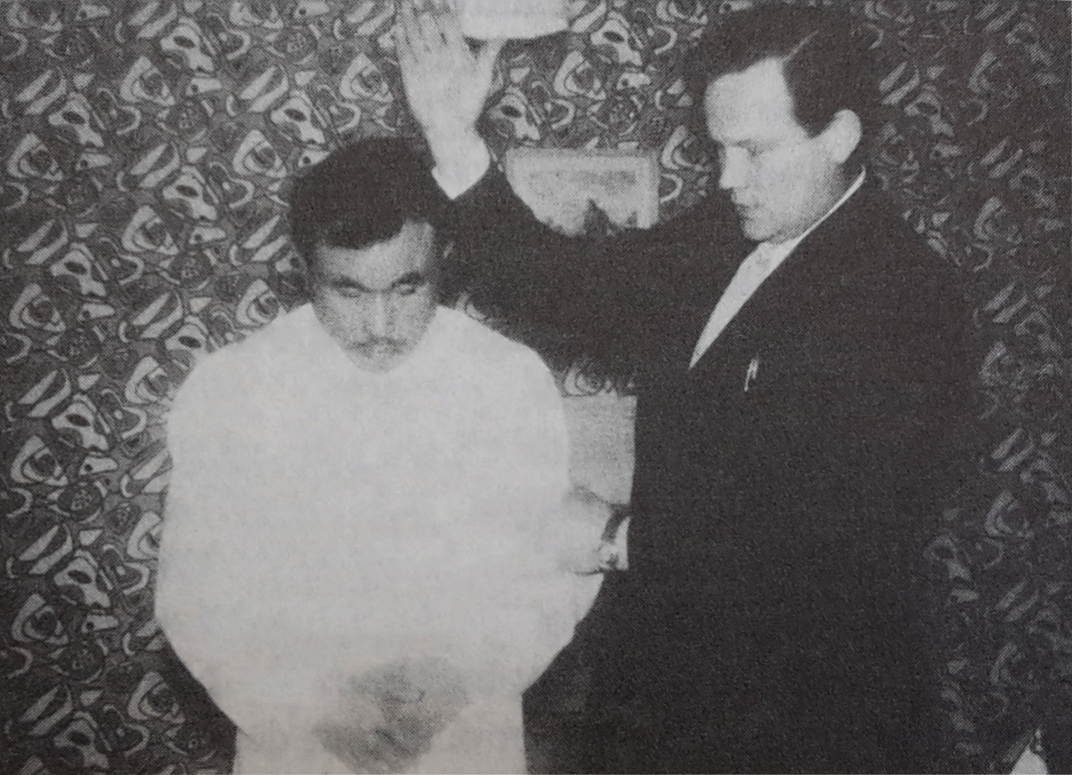 Swedish journalist and missionary Erik Martinsson performing the first Pentacostal baptism in Greenland.